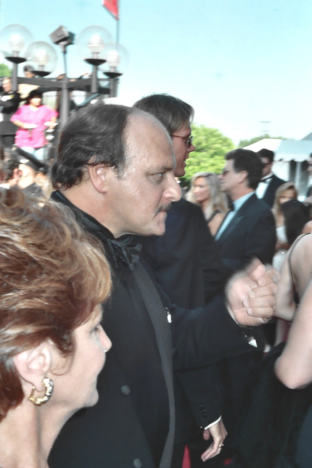 1994 Emmy Awards NOTE: Permission granted to copy, publish, broadcast or post any of my photos, but please credit "photo by Alan Light" if you can. Thanks. Scanned from the original 35MM film negative.